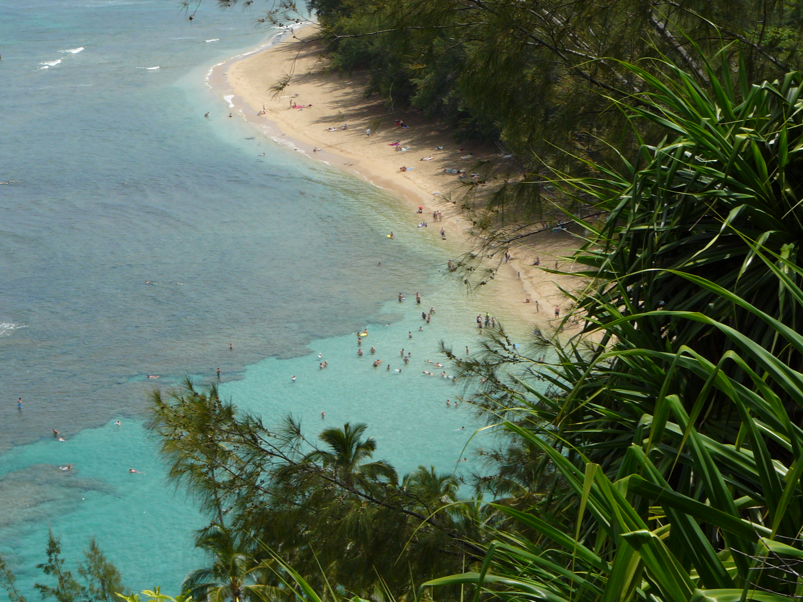 Photo of Kee Beach from Kalalau Trail. Taken by flickr user ericrichardson on August 2, 2006. CC-BY-2.0 as of 2007-02-18.